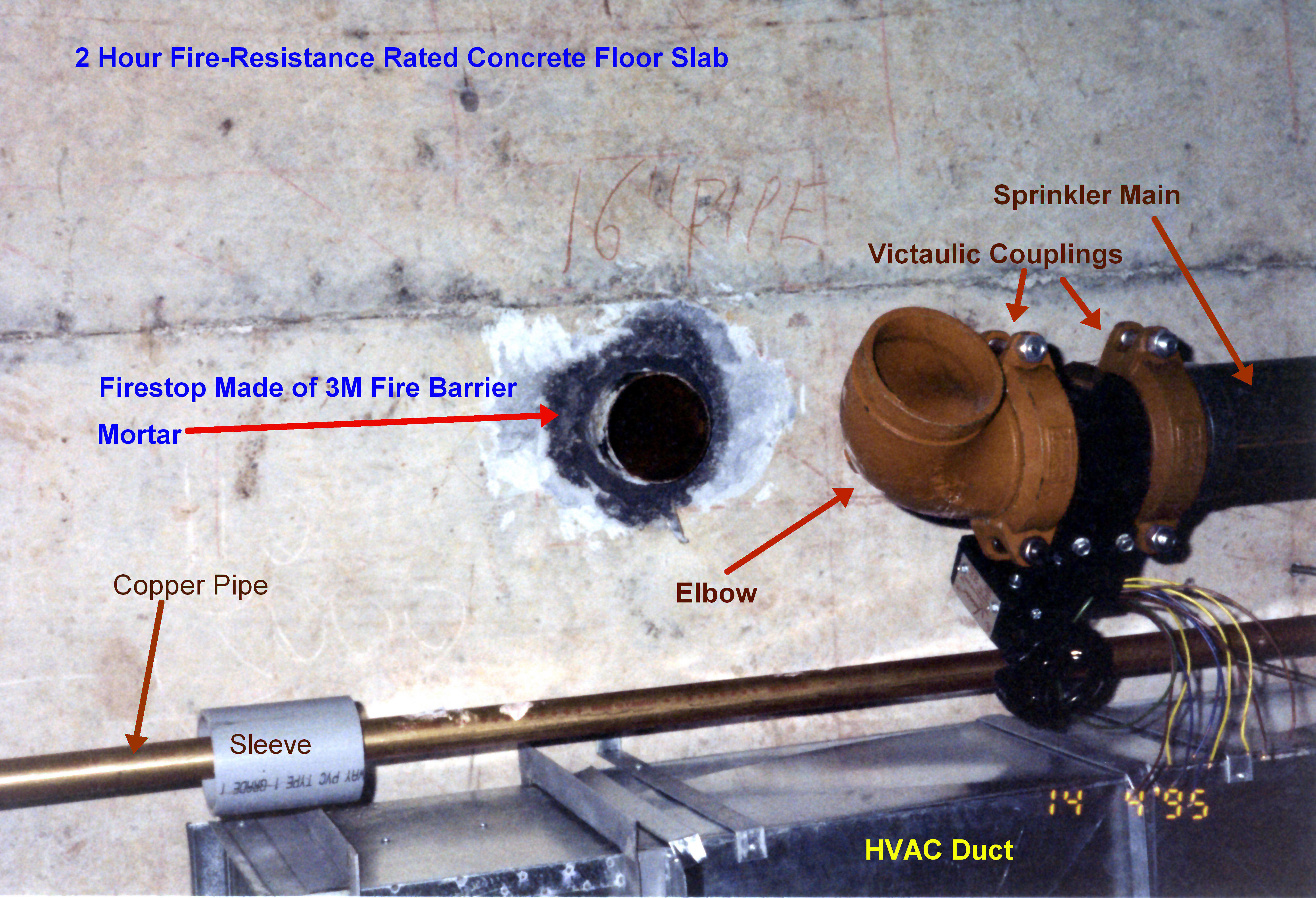 Victaulic couplings used to connect fire sprinkler pipe with an elbow piece. Also showing a firestop made of firestop mortar in a 2 hour fire-resistance rated concrete floor slab, plus a plastic pipe sleever hanging around a copper pipe.